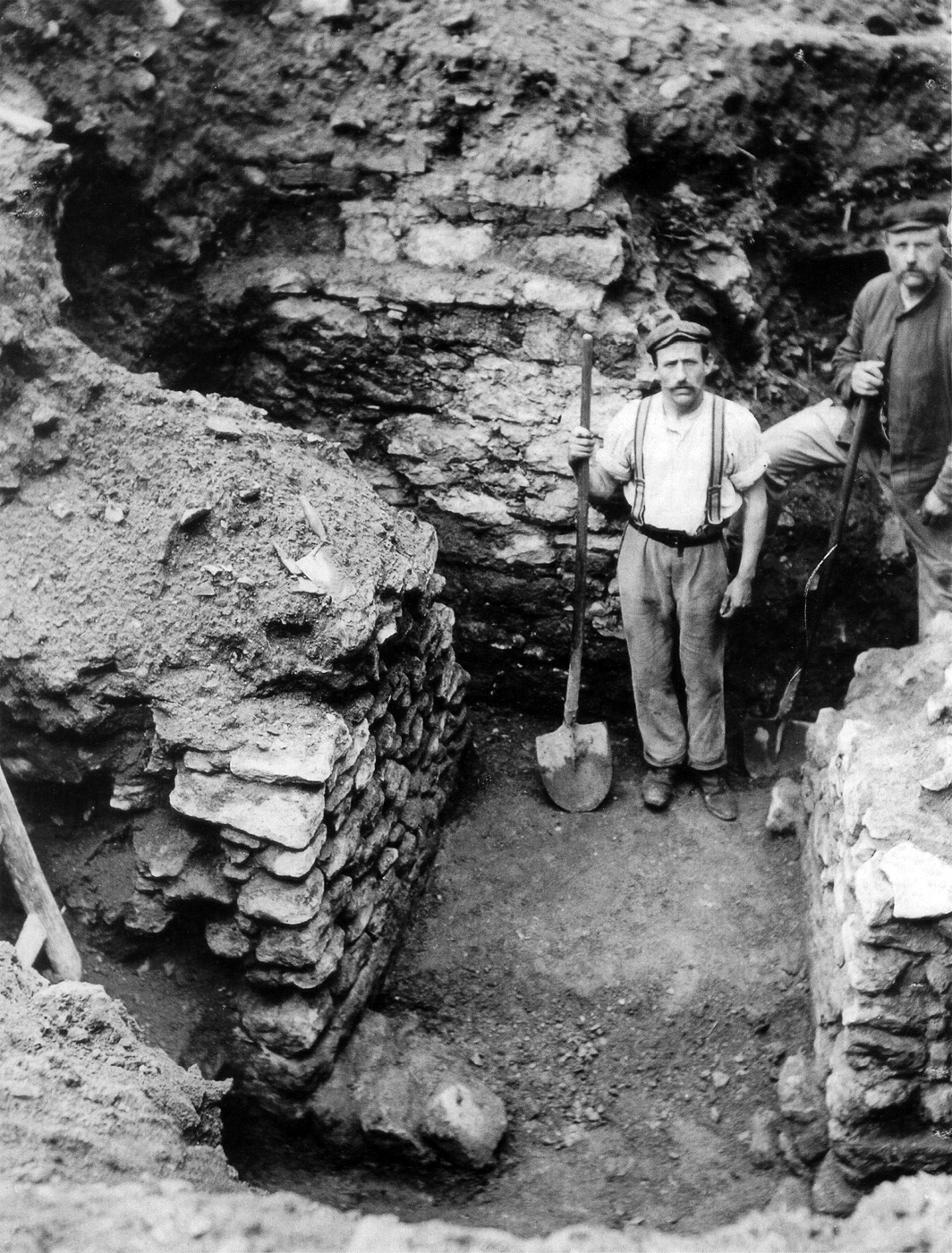 Frankfurt on the Main: Gate of the oldest city wall at the courtyard of the former house Borngasse 6